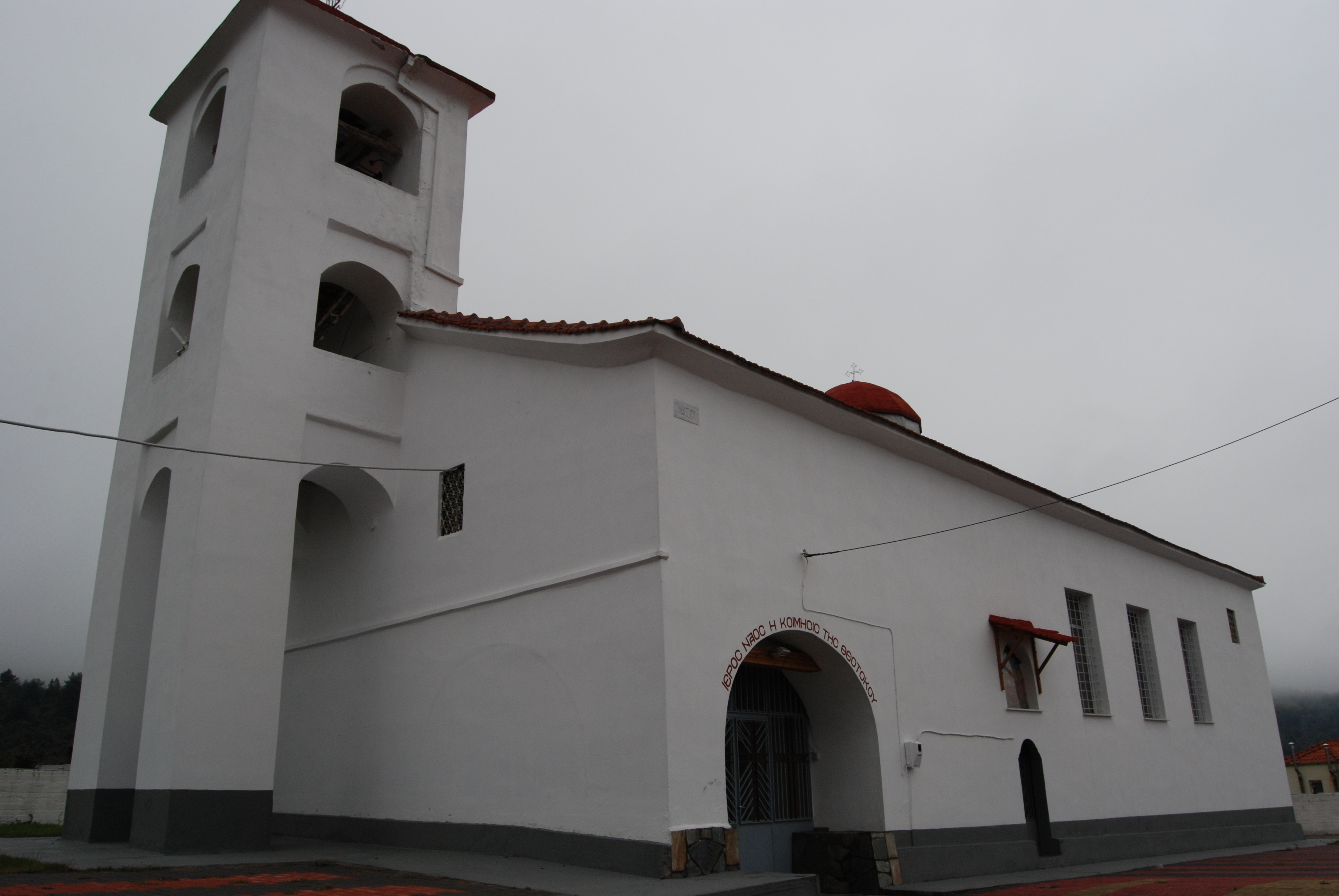 Orthodox church in Dasoto, Greece.